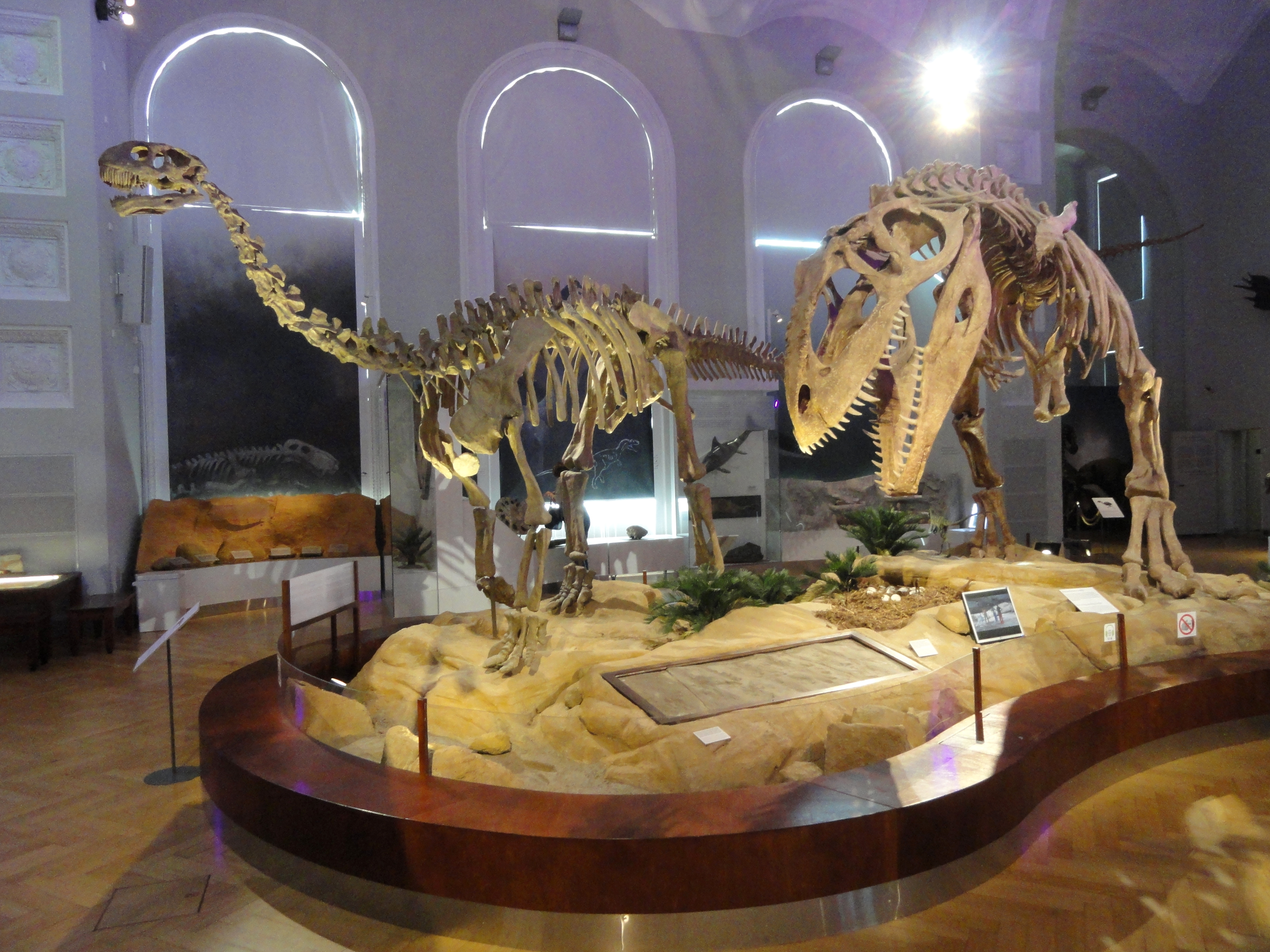 Exhibit in the Finnish Museum of Natural History, Helsinki, Finland.